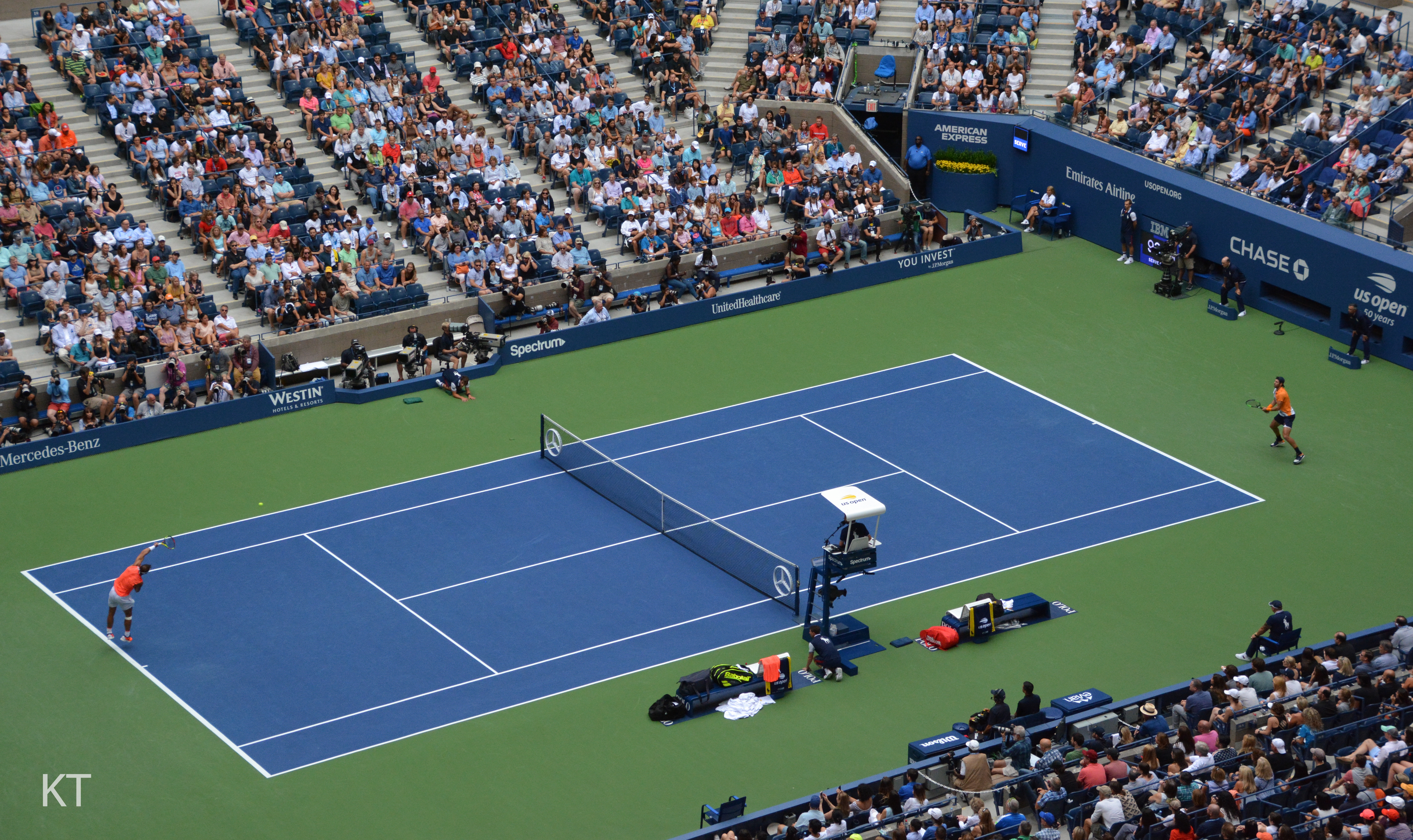 Rafael Nadal v Karen Khachanov on Arthur Ashe stadium. Day 5 of US Open 2018.